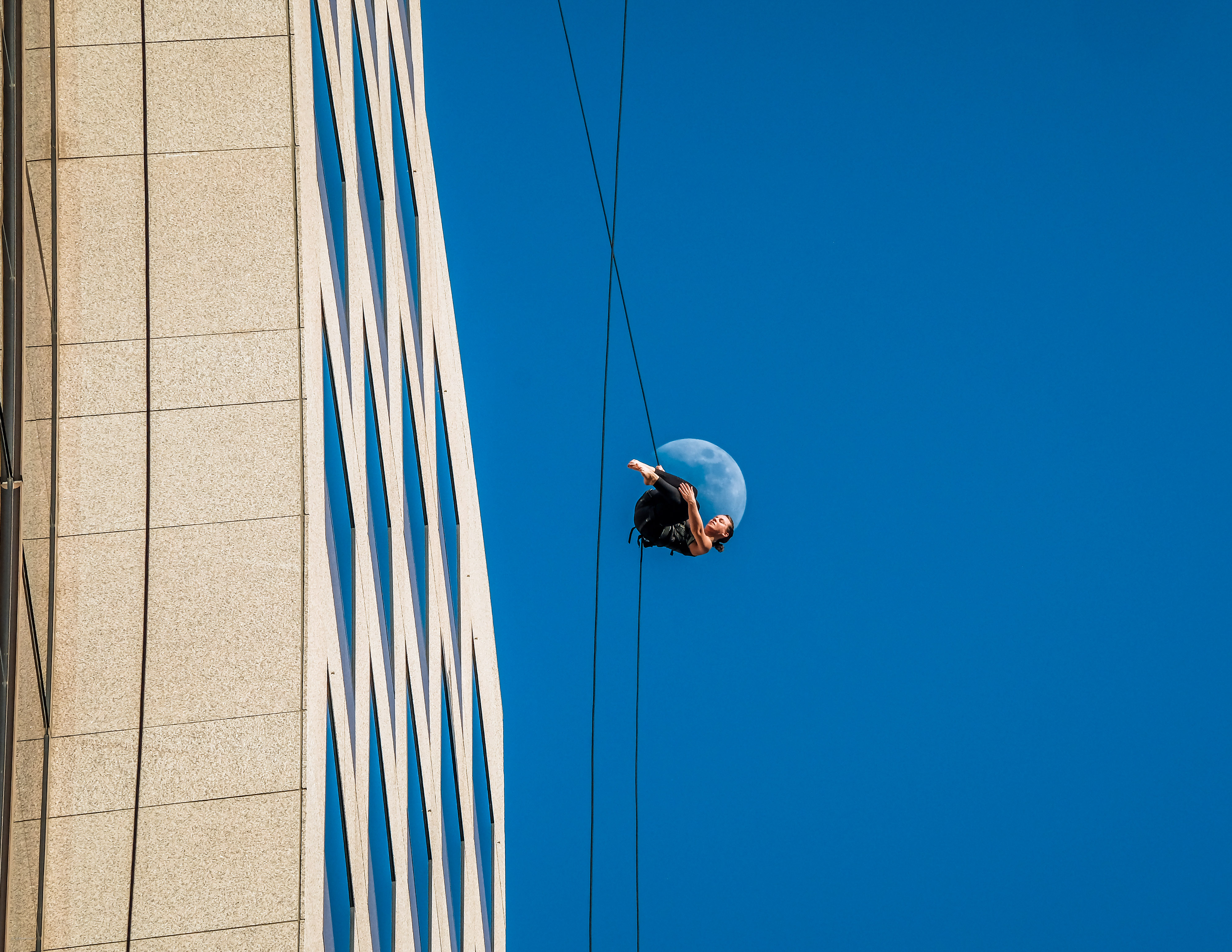 Aerial dance company rehearsal on the side of the Fifth Avenue Place building in Pittsburgh, PA.